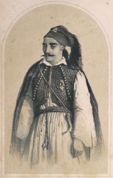 Aristid Chrisovery